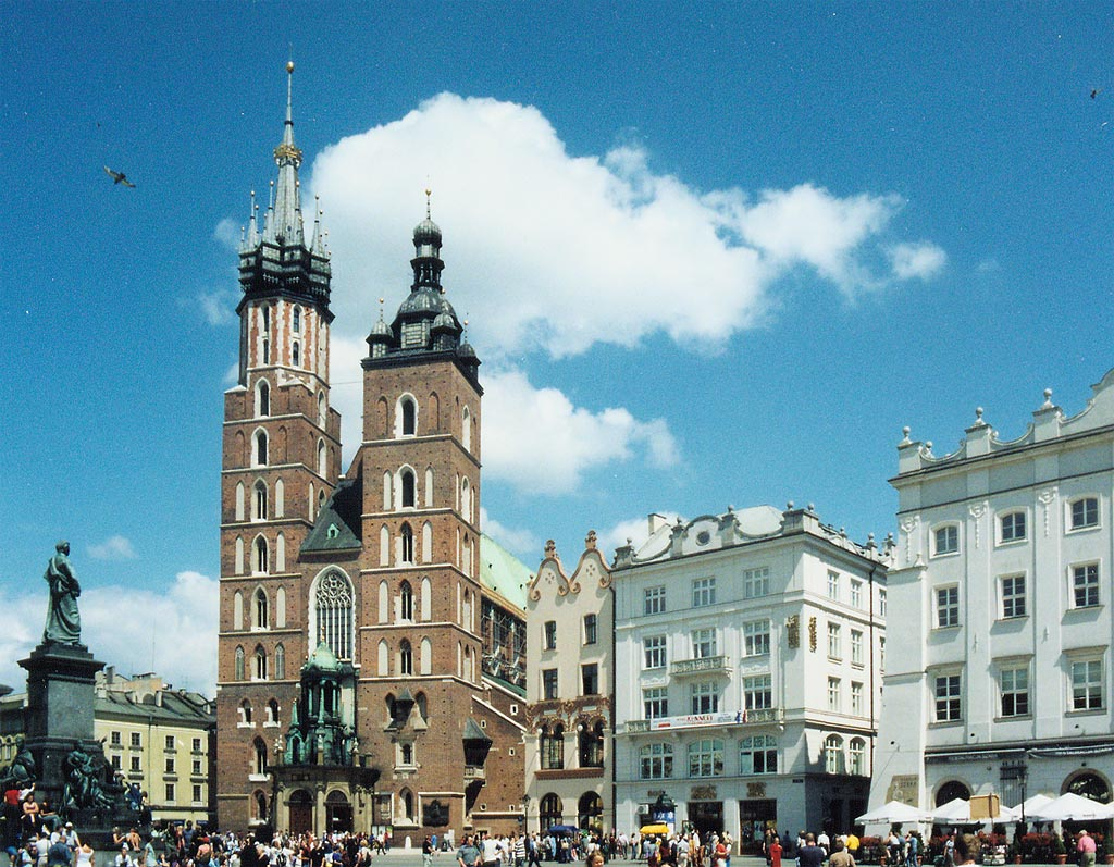 Old Market Square in Kraków with St. Mary church.